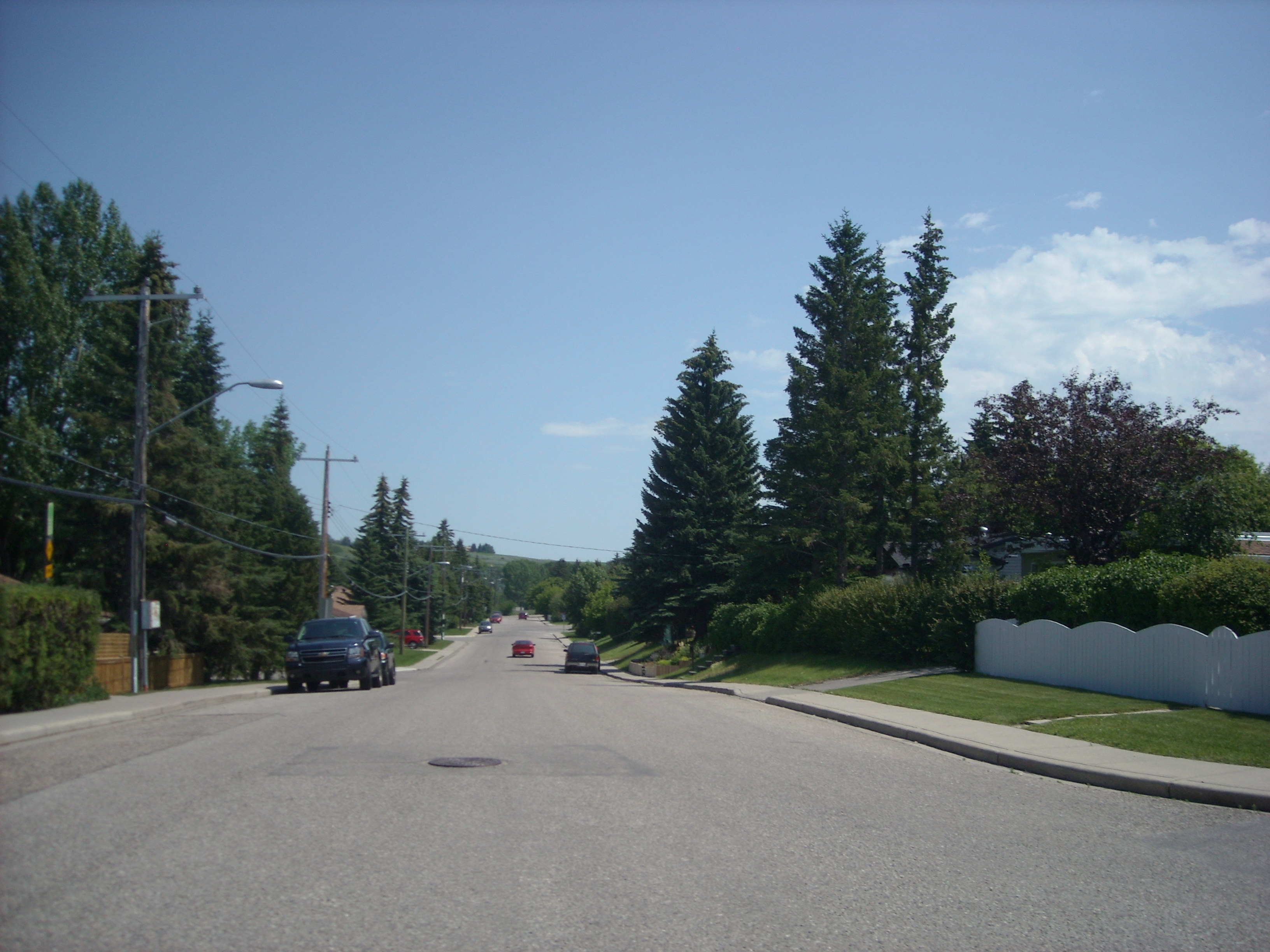 Summertime view of the Calgary, Alberta community of Bowness along 48 Avenue NW near 81 Street NW.